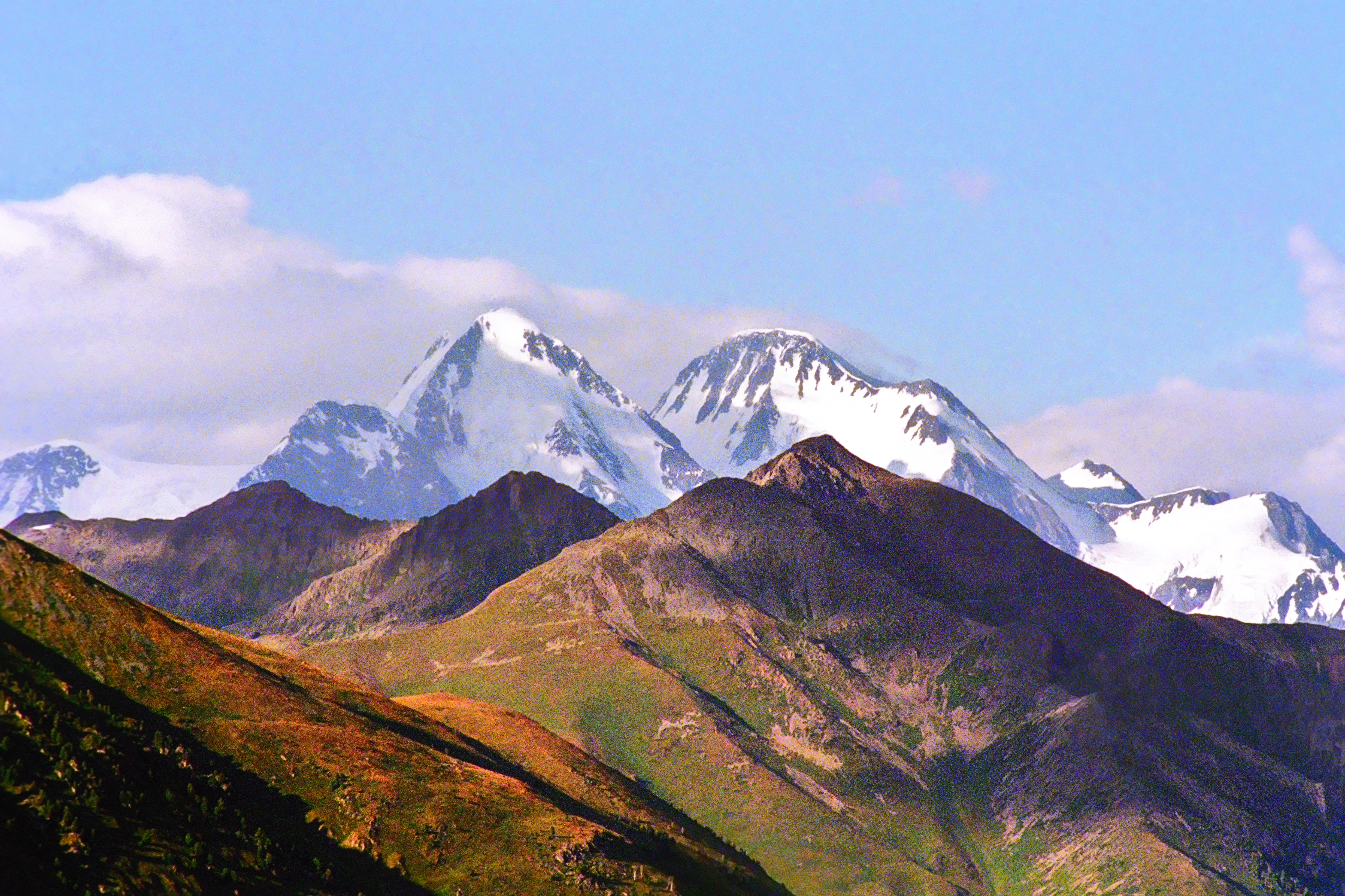 Beluha mountain, Altai, Russia, shot from Kazakhstan side, summer 2000, scan from film This image is related to the protected area of Russia number 0410009